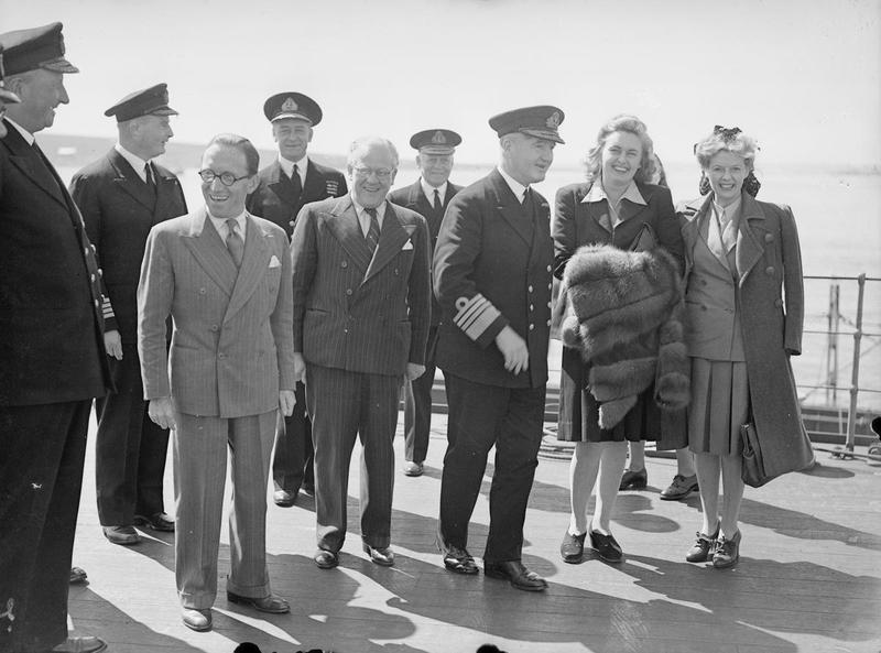 Arthur Askey and Jack Hylton As Guest Artists at New Home Fleet Theatre. 18 July 1943, Scapa Flow. a Number of Well Known Performers Including Arthur Askey, Jack Hylton, "georgina" and June Marlow, Were Guest Artists at the New Home Fleet Theatre Opened by Admiral Sir Bruce Fraser, C-in-c Home Fleet. the New Theatre Which Seats 1,236 Officers and Men, Was Built by the Royal Marine Engineers. Left to right: Arthur Askey, Rear Admiral P MacNamara, CB, CBE, Jack Hylton, Vice Admiral Sir L V Wells, KCB, DSO (ACOS), Admiral Sir Bruce Fraser, KBE, CB, (C-in-C Home Fleet), "Georgina and June Marlow on the quarterdeck of HMS DUKE OF YORK before the opening ceremony.